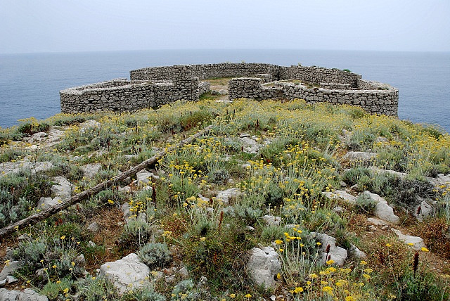 a fort